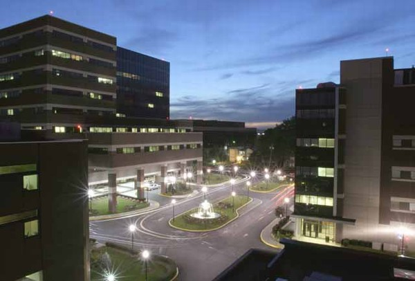 Main entrance of HUMC.